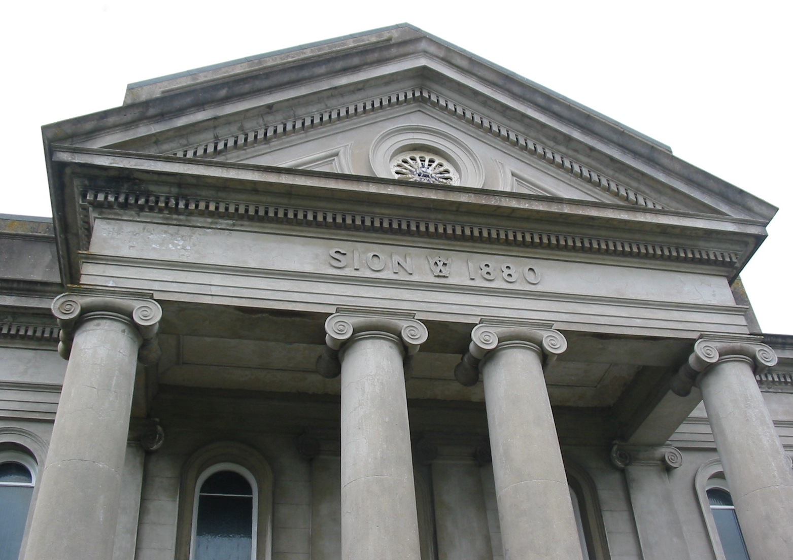 Saint John, Jersey, July 2009